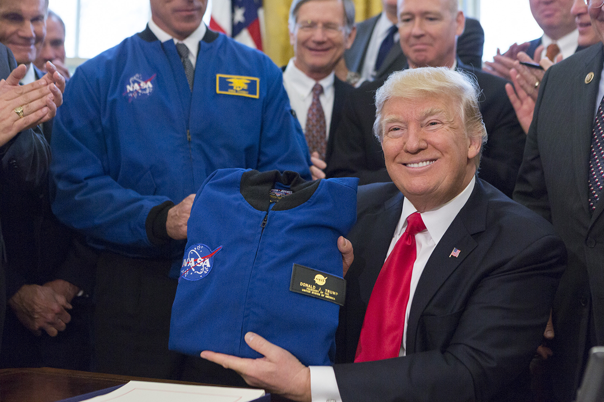 President Donald Trump holds up a jacket he was given by a guest, Tuesday, March 21, 2017, after signing the S.422, the National Aeronautics and Space Administration Transition Authorization Act in the Oval Office. (Official White House Photo by Paul D. Williams)